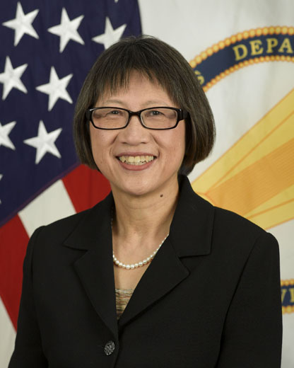 Official photo of Assistant Secretary, Heidi Shyu